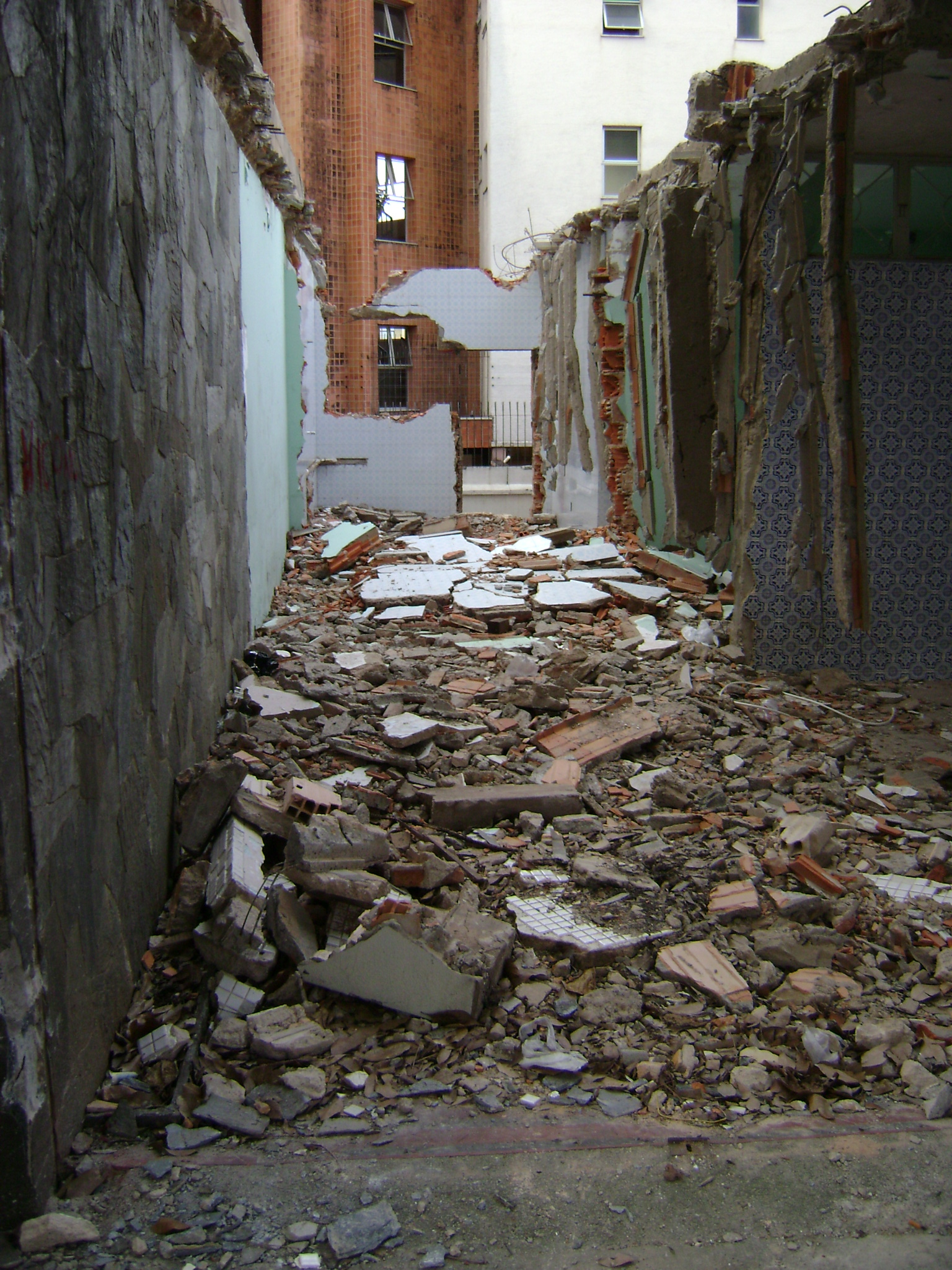 Demolição de varanda, em Belo Horizonte.